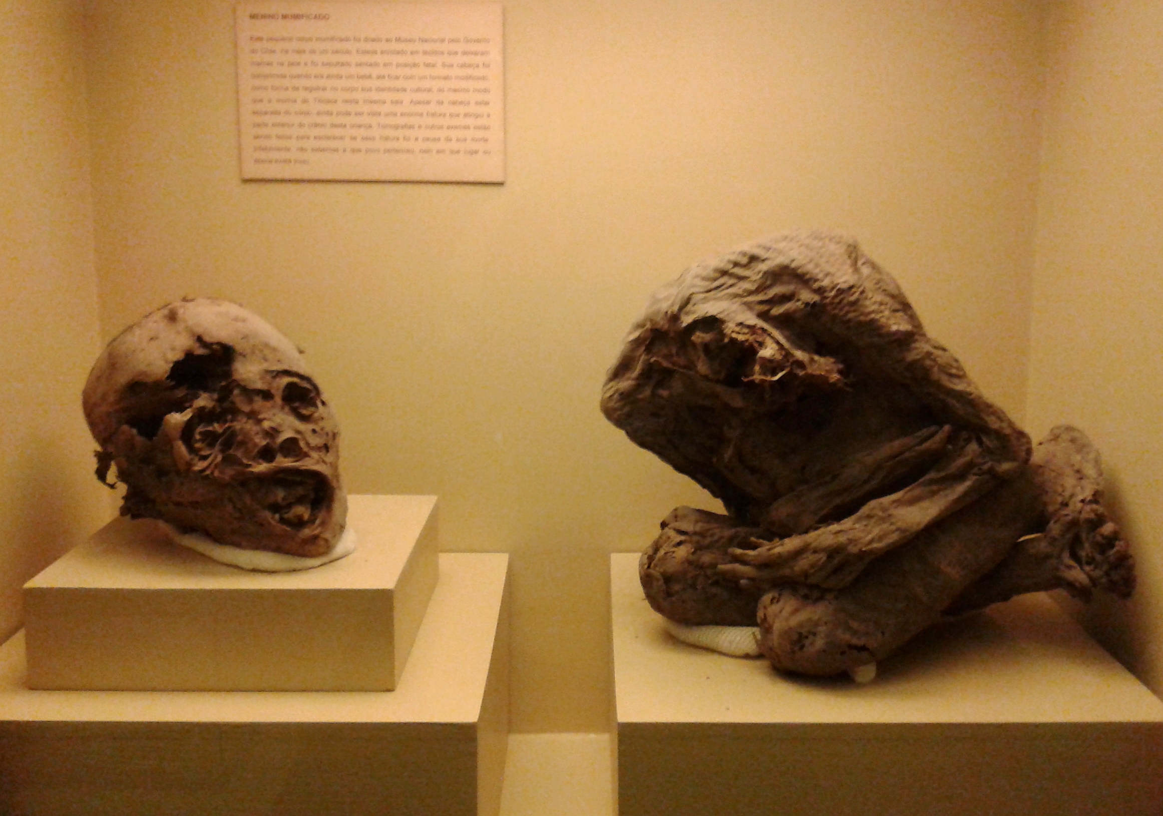 Mummified body of a boy donated to the National Museum of Brazil by the government of Chile.